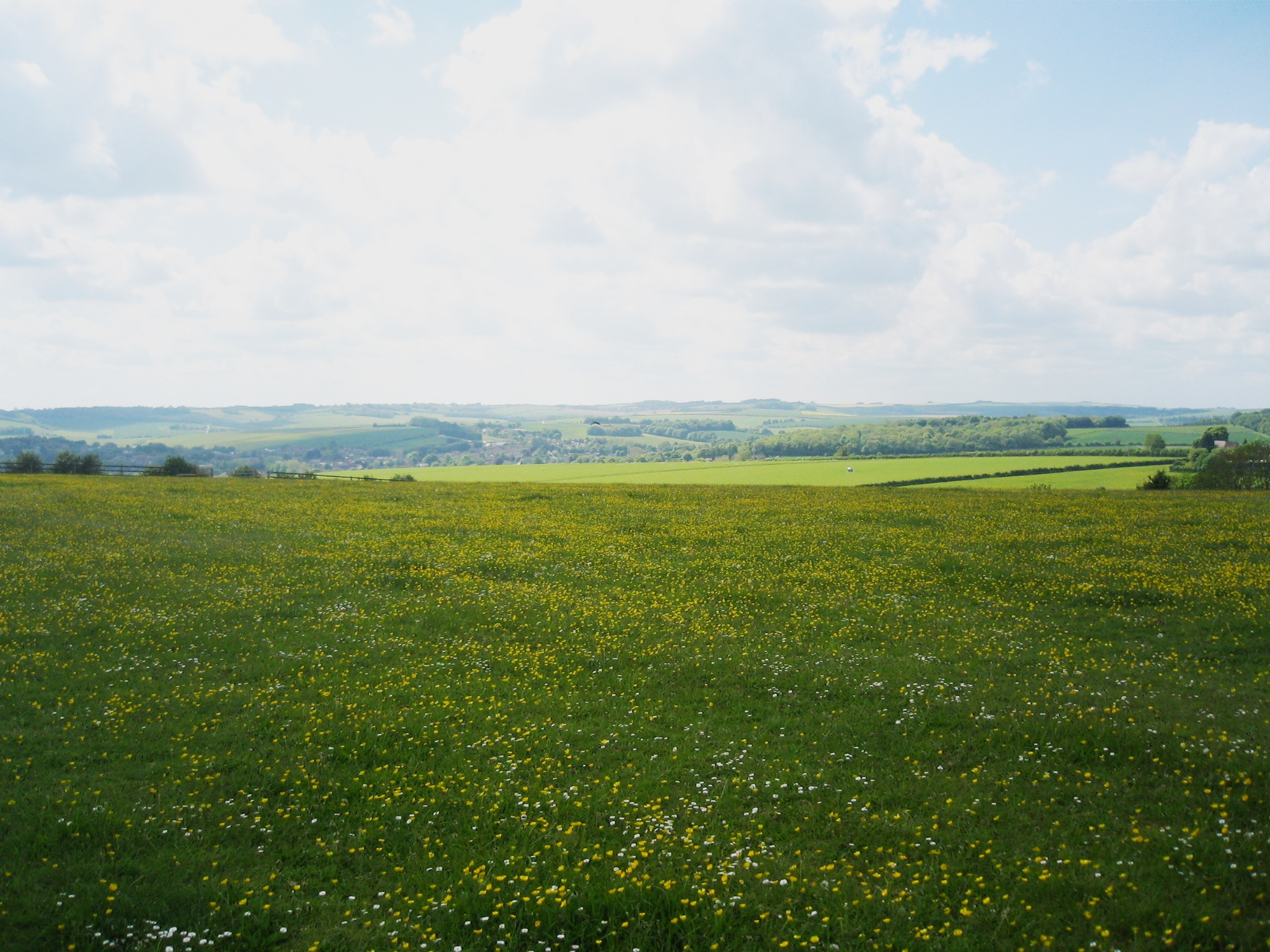 Eastbury Down, Lambourn or North Wessex Downs, Eastbury, Berkshire, England